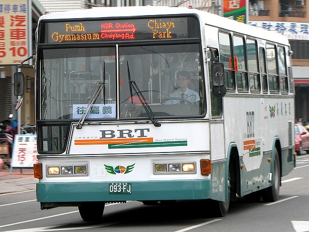 Chiayi Bus operates BRT line with second-hand HINO LRK2JRA bus 093-FJ from Danan Bus.